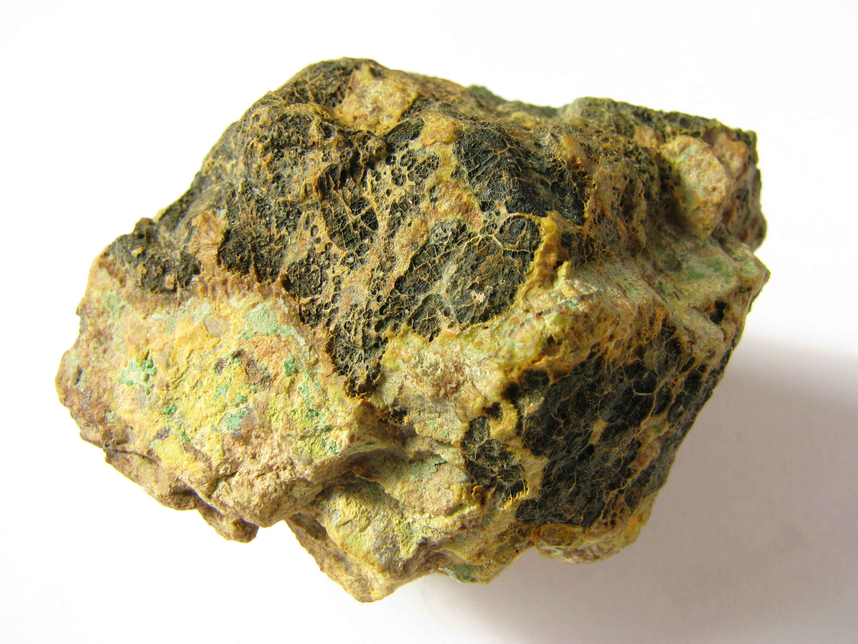 Pitchblende + zippeite - Zálesí (Javorník) uranium mine, Czech Republic.